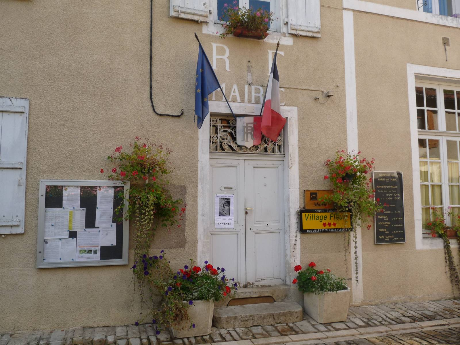 town hall of Nanteuil-en-Vallée, Charente, SW France